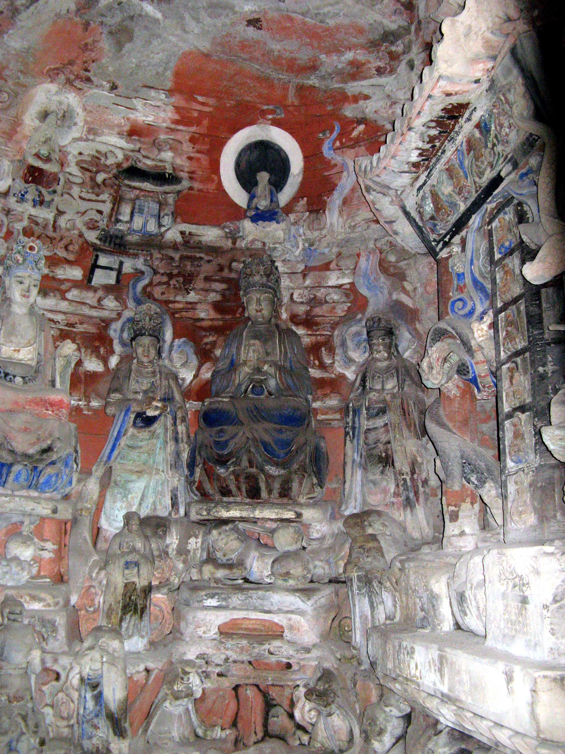 Vairocana Triad. Baodingshan, Dazu The grotto walls are decorated with Vairocana Triads; their repetition reinforces the idea of multiplicity that is a centerpiece of Huayan doctrine.